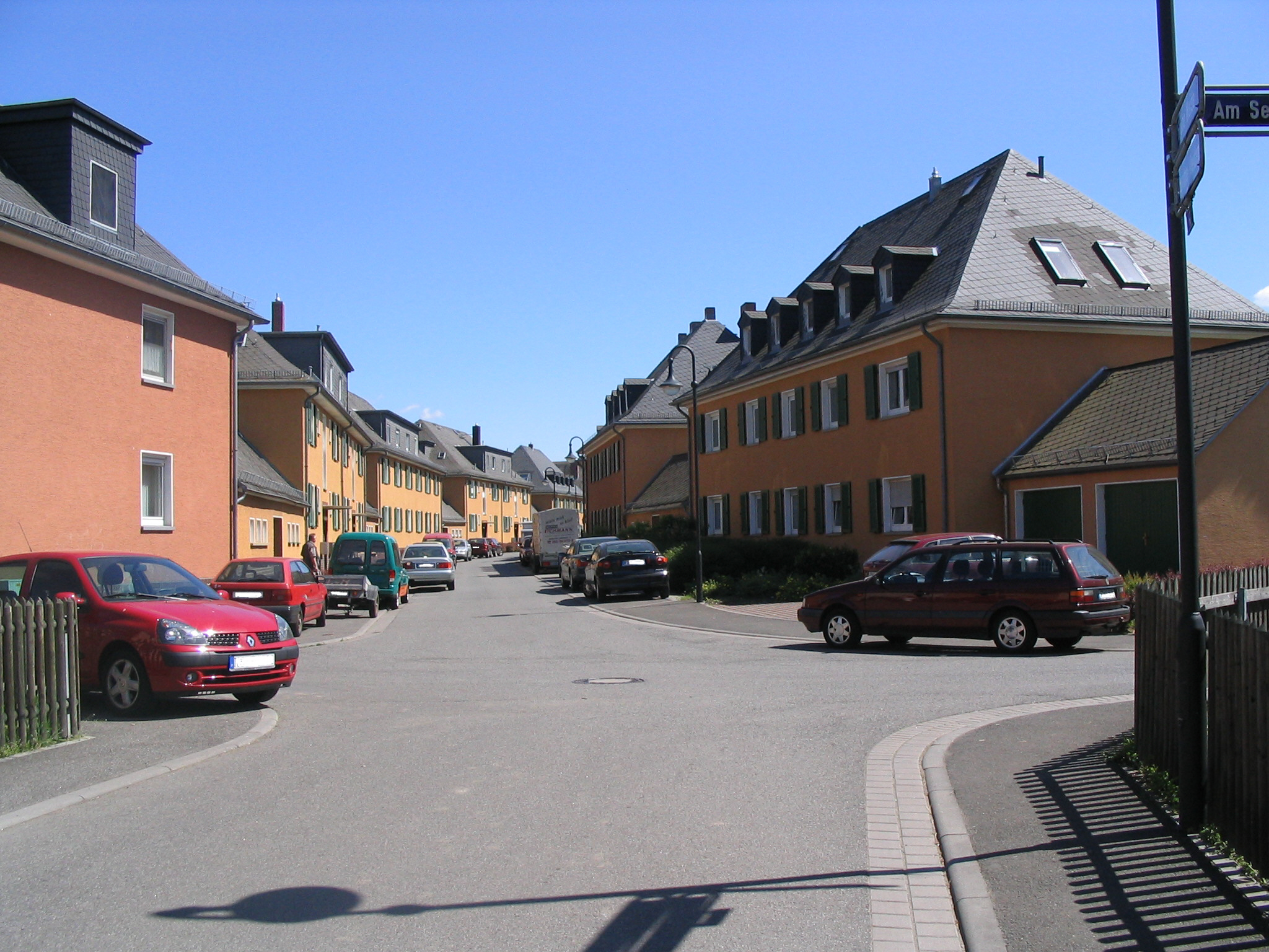 Railway workers' housing in Nied, Frankfurt am Main, Germany